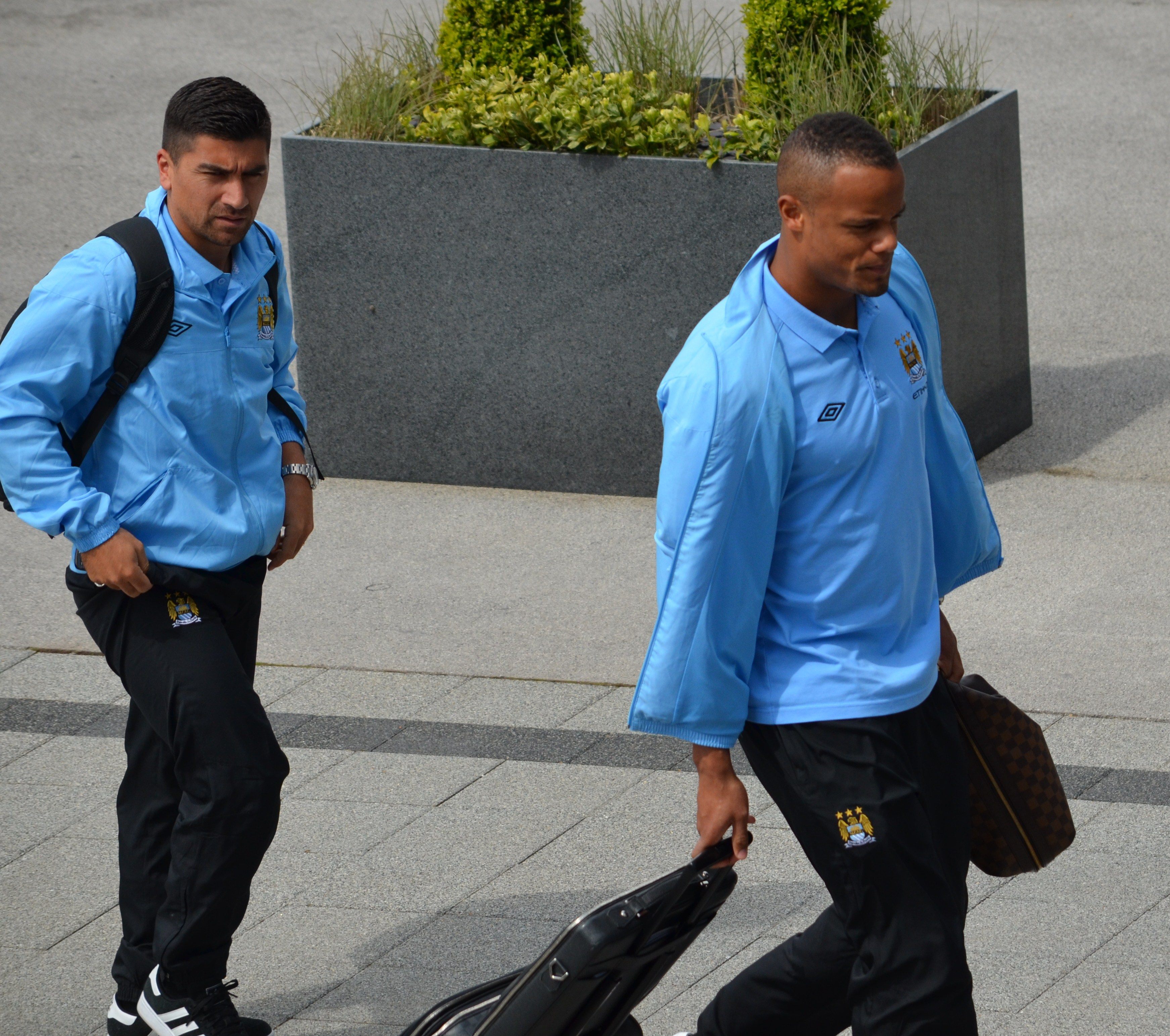 David Pizarro and Vincent Kompany arriving for a match.